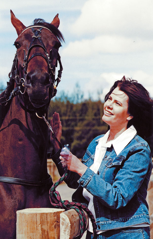 Donna Chisholm with her trotter Landora's Image in 2003